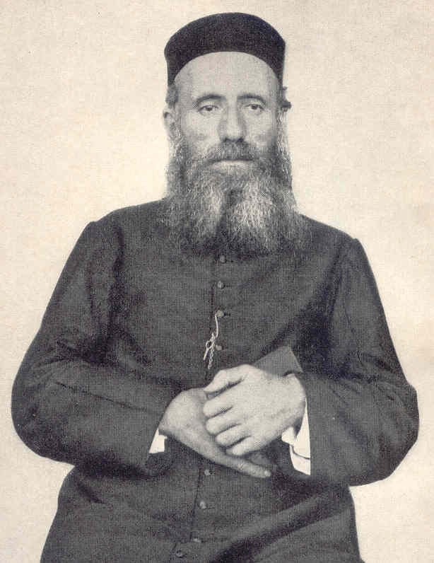 Jacques Berthieu (1838-1896), French Jesuit, missionary in Madagascar, where he died as a martyr of the faith